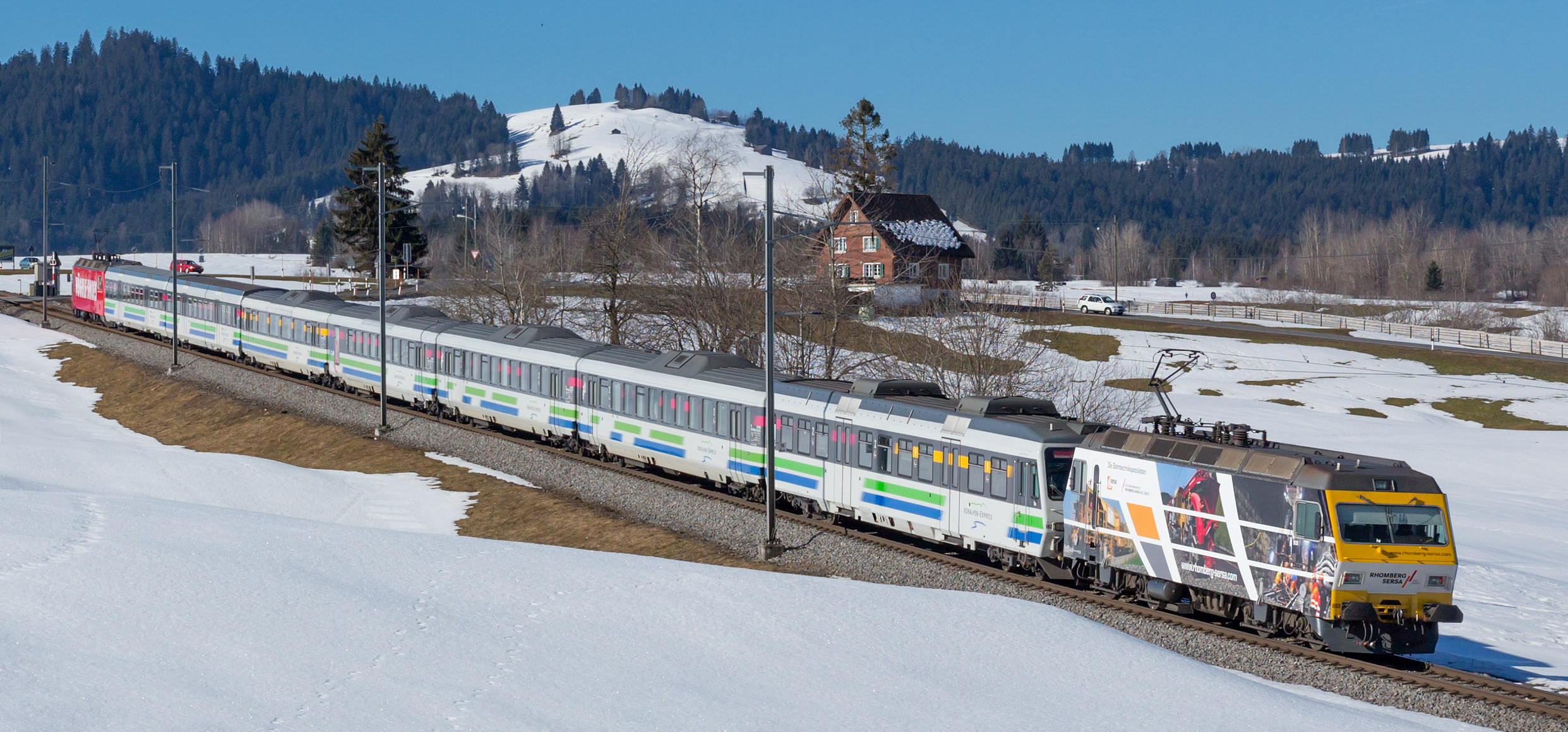 Two SOB Re 456 with a Voralpenexpress are climbing the grade between Biberbrugg and Altmatt, Switzerland. The train consists of two former BT RBDe 566 NPZ coaches (both have a lower coupler at one end, hence two of them), four Revvivo coaches and a NPZ driving trailer.